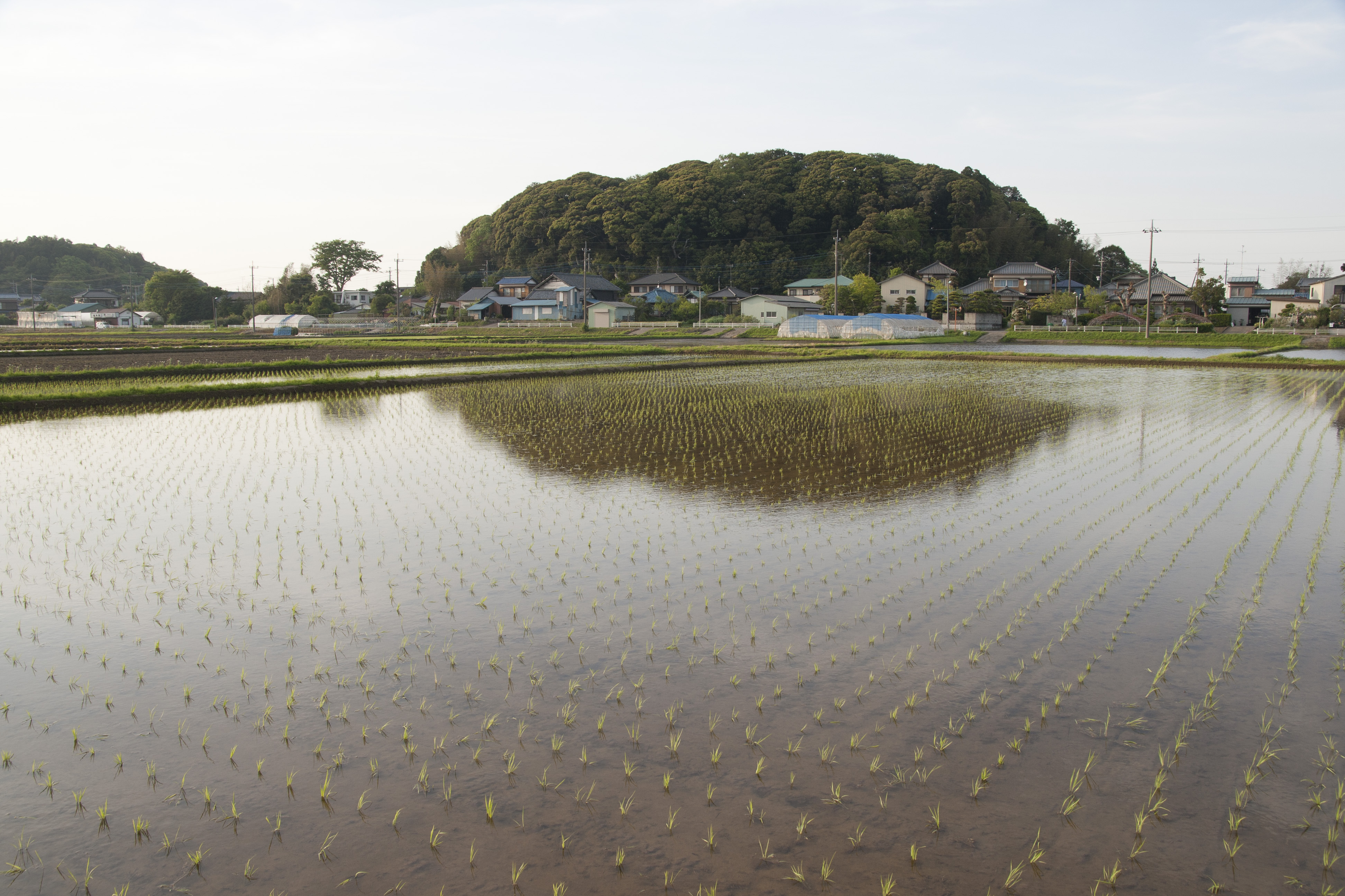 Naganuma Castle Ruins, Narita City, Chiba Pref., Japan